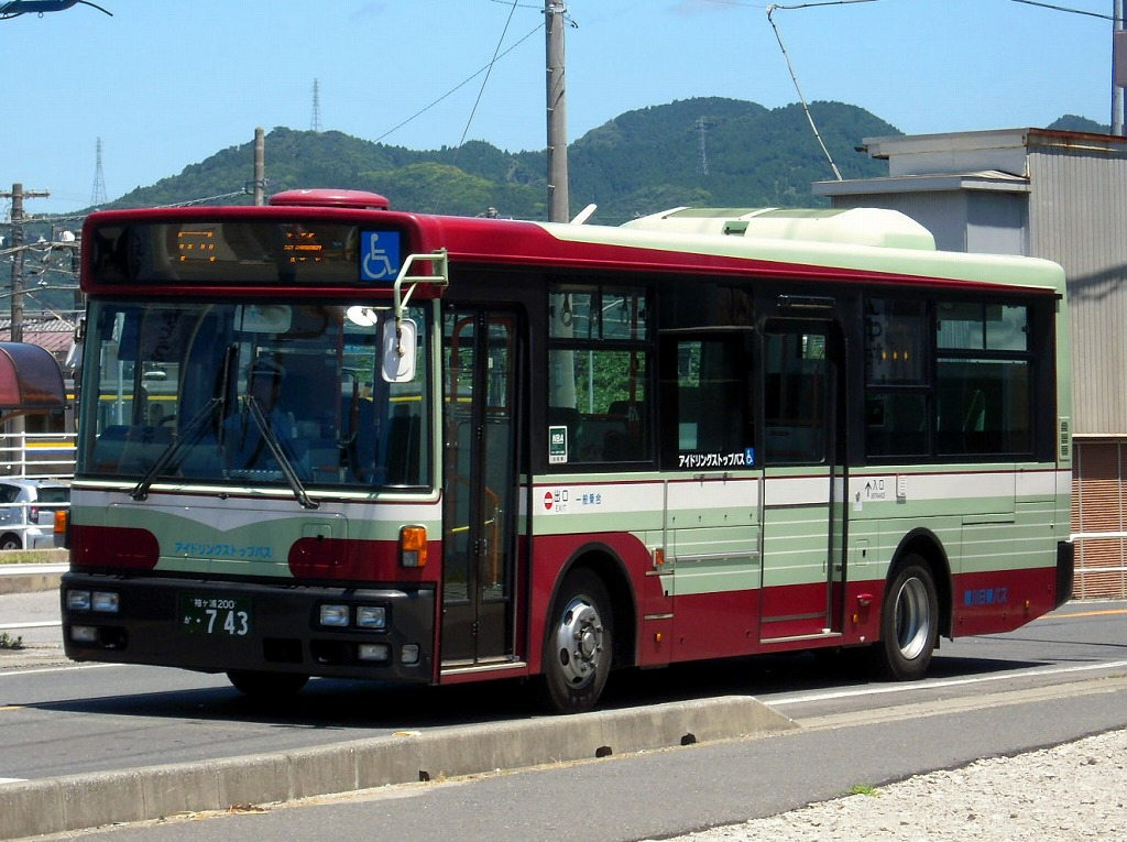 Kamogawa Nitto bus Mitsubishi Fuso Aero Midi-S (PDG-AR820GAN) Onestep bus